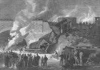 Rail accident near Kentish Town rly Station, London, 2nd of Sep 1861